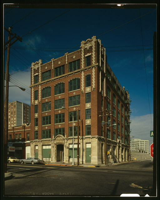 Odd Fellows Building & Auditorium, 228-250 Auburn Avenue, Atlanta, Fulton County, GA, SOUTH (FRONT) AND EAST (SIDE) FACADES